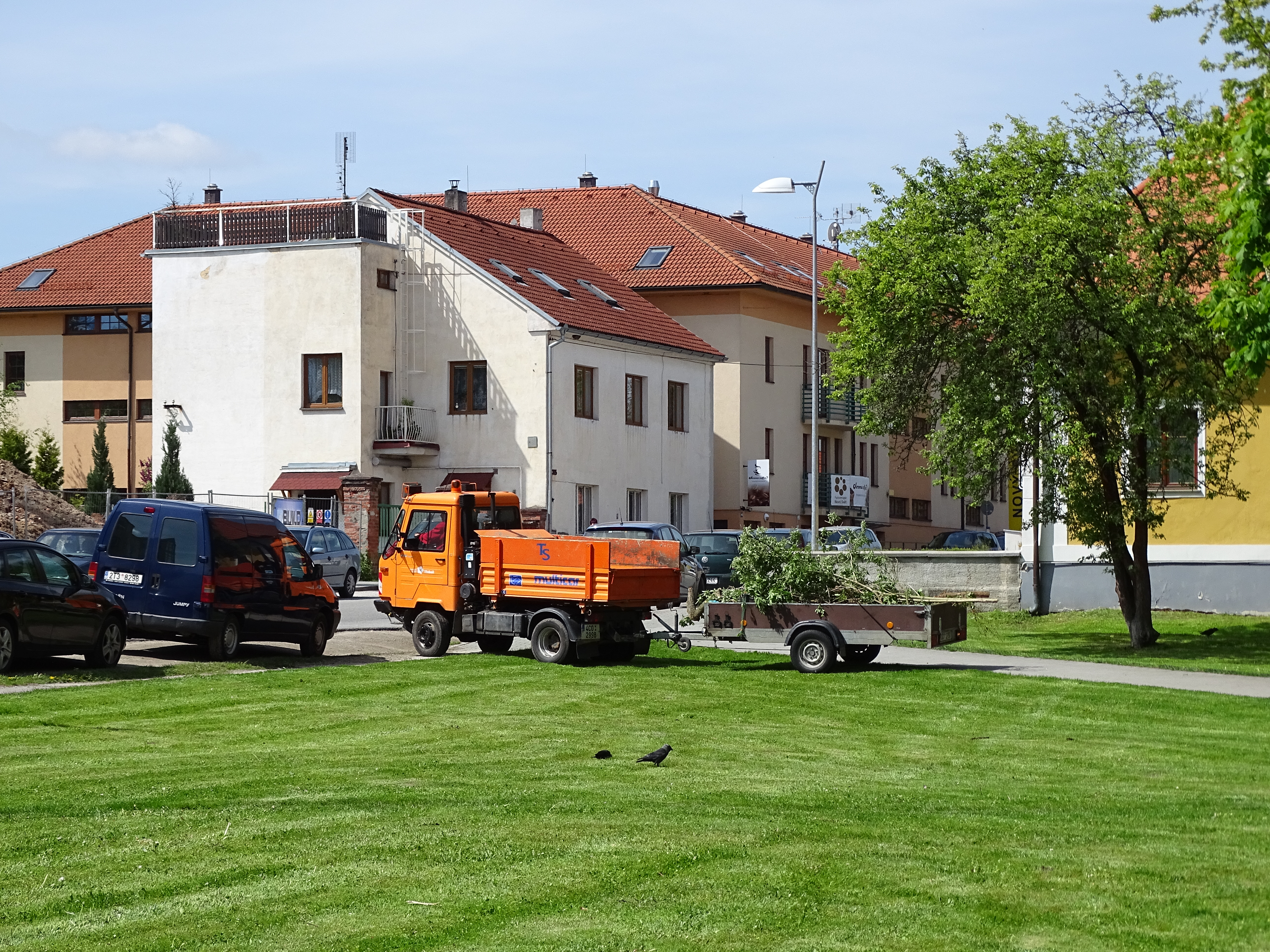 Třeboň II, Jindřichův Hradec District, South Bohemian Region, Na rybníčku and Svobody street, a Multicar of Technické služby.